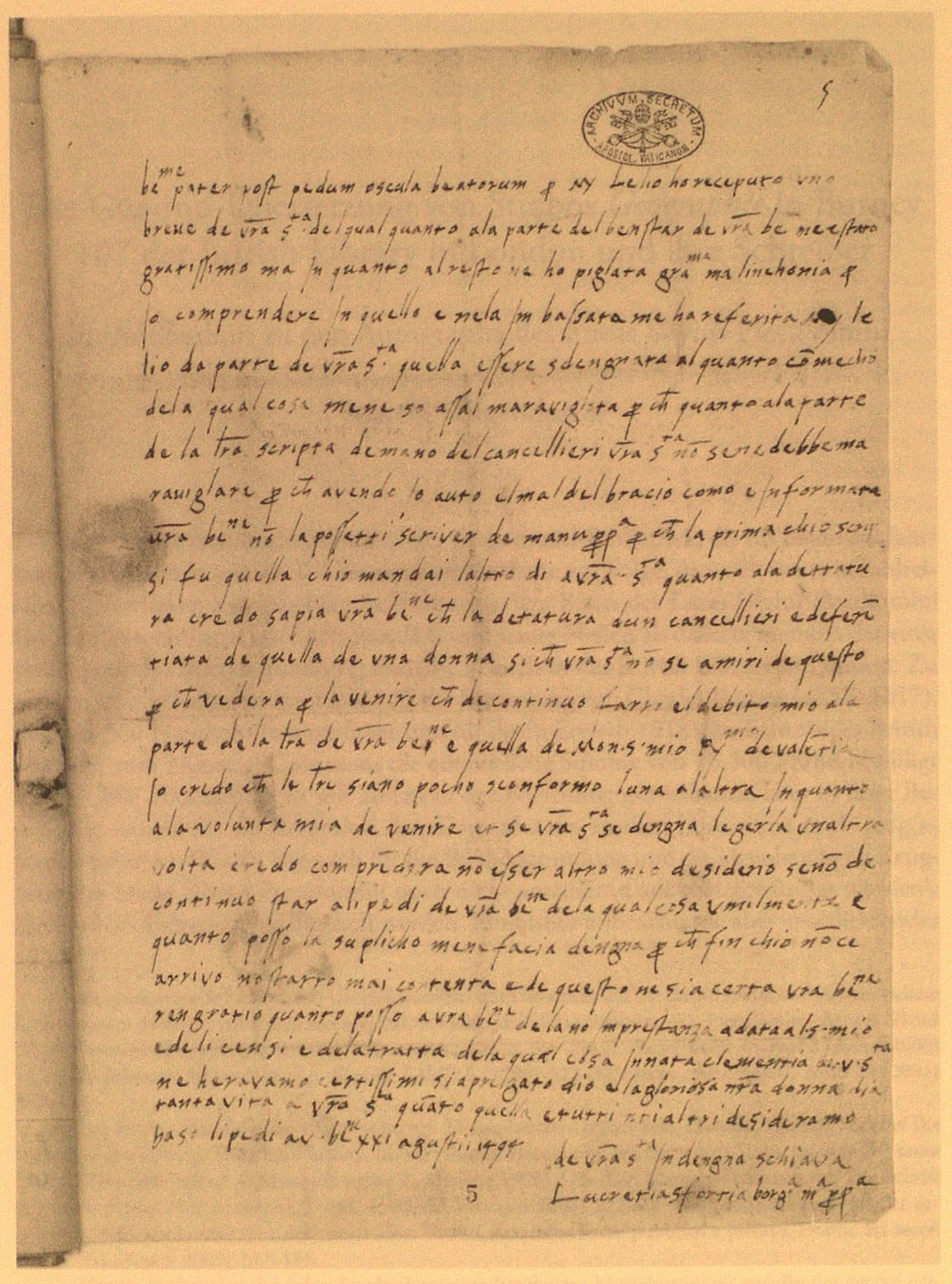 An autograph letter of Lucrezia Borgia to her father, Pope Alexander VI. Rome, Archivio Segreto Vaticano, Archivum Arcis, Arm. I–XVIII, 5027, fol. 5r.